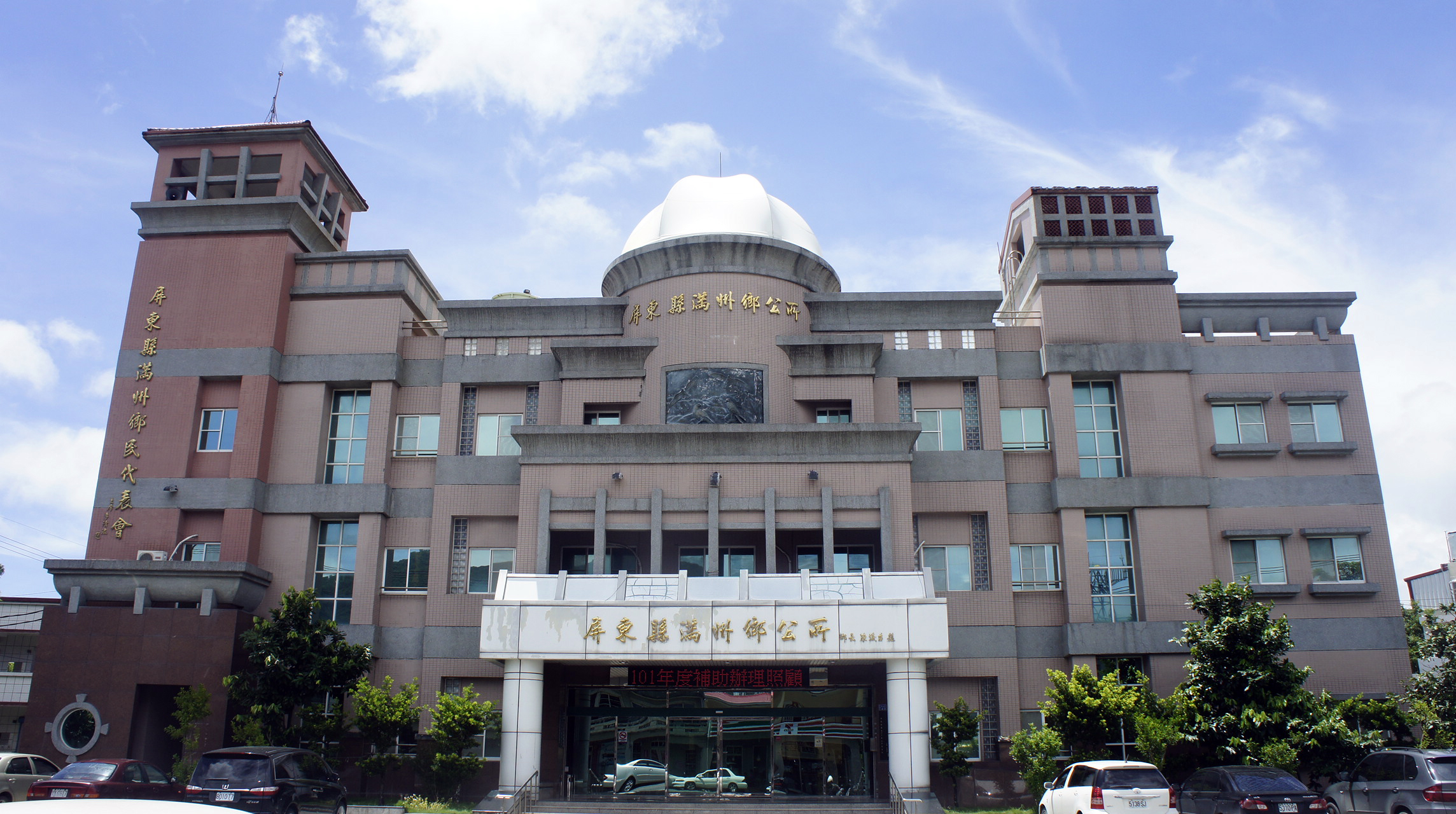 Manzhou Township Office中文（台灣）: 屏東縣滿州鄉公所、屏東縣滿州鄉民代表會